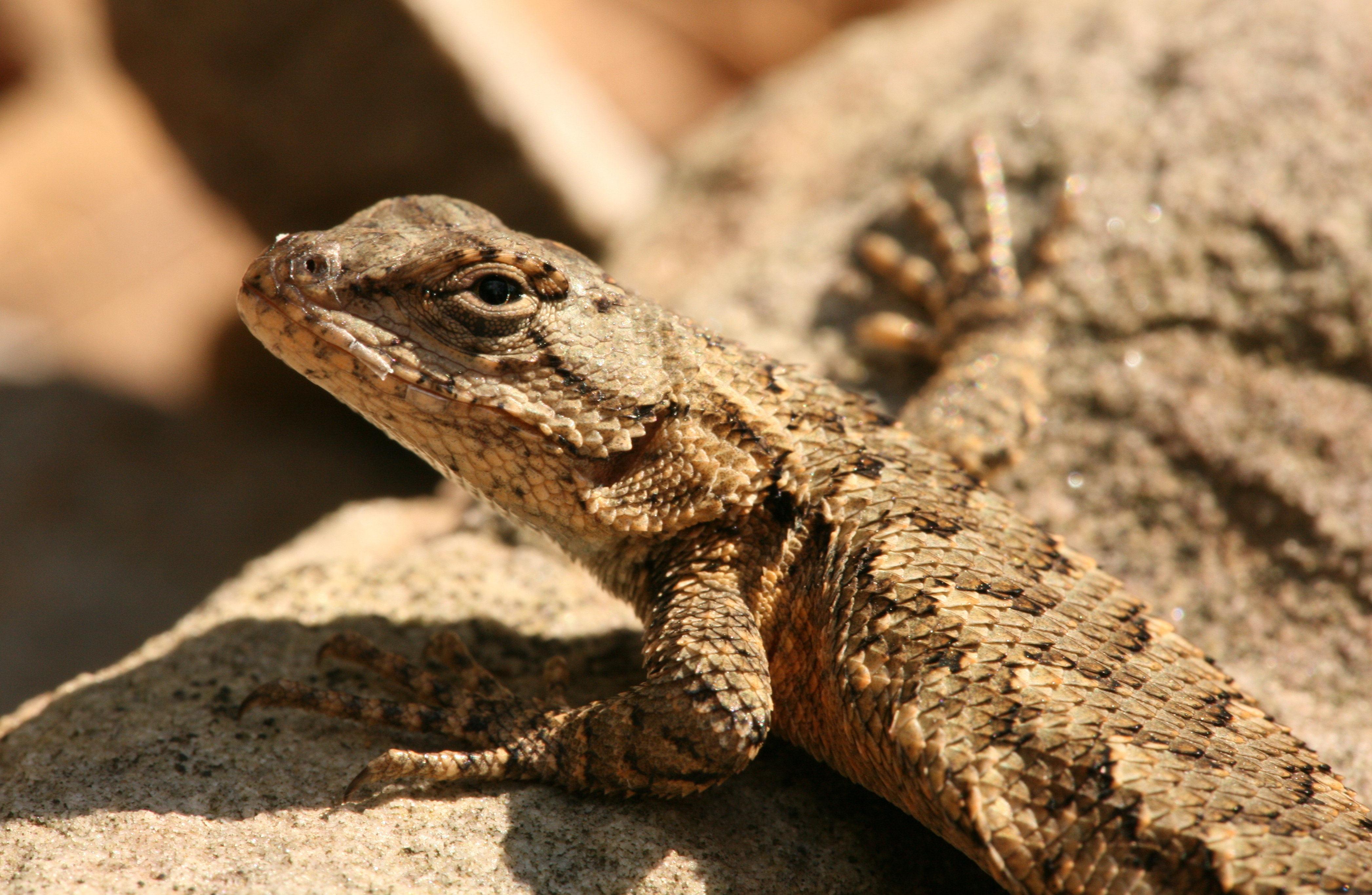 Lizzard in Shawnee National Forrest, Southern Illinois